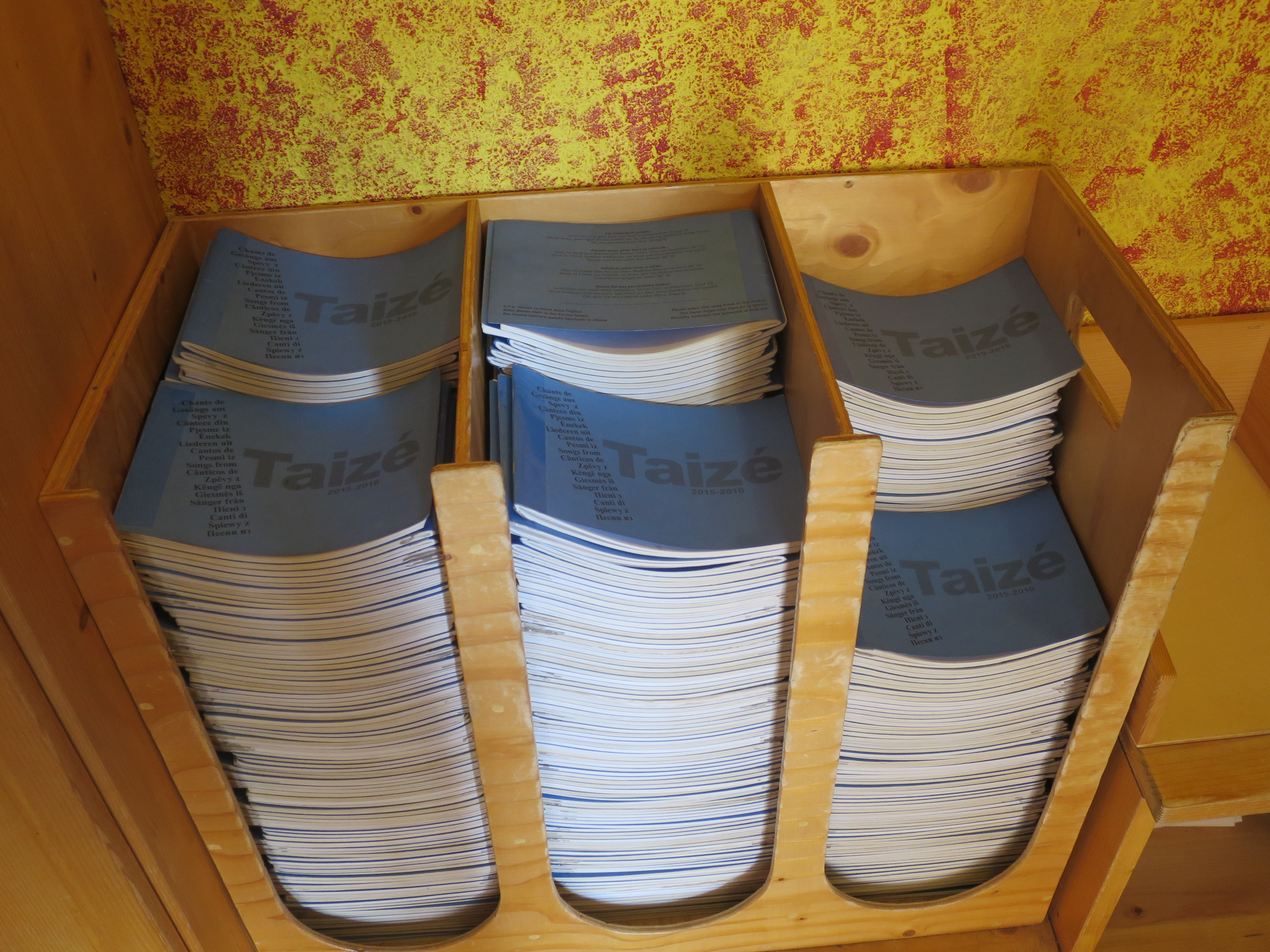 Songs of Taizé